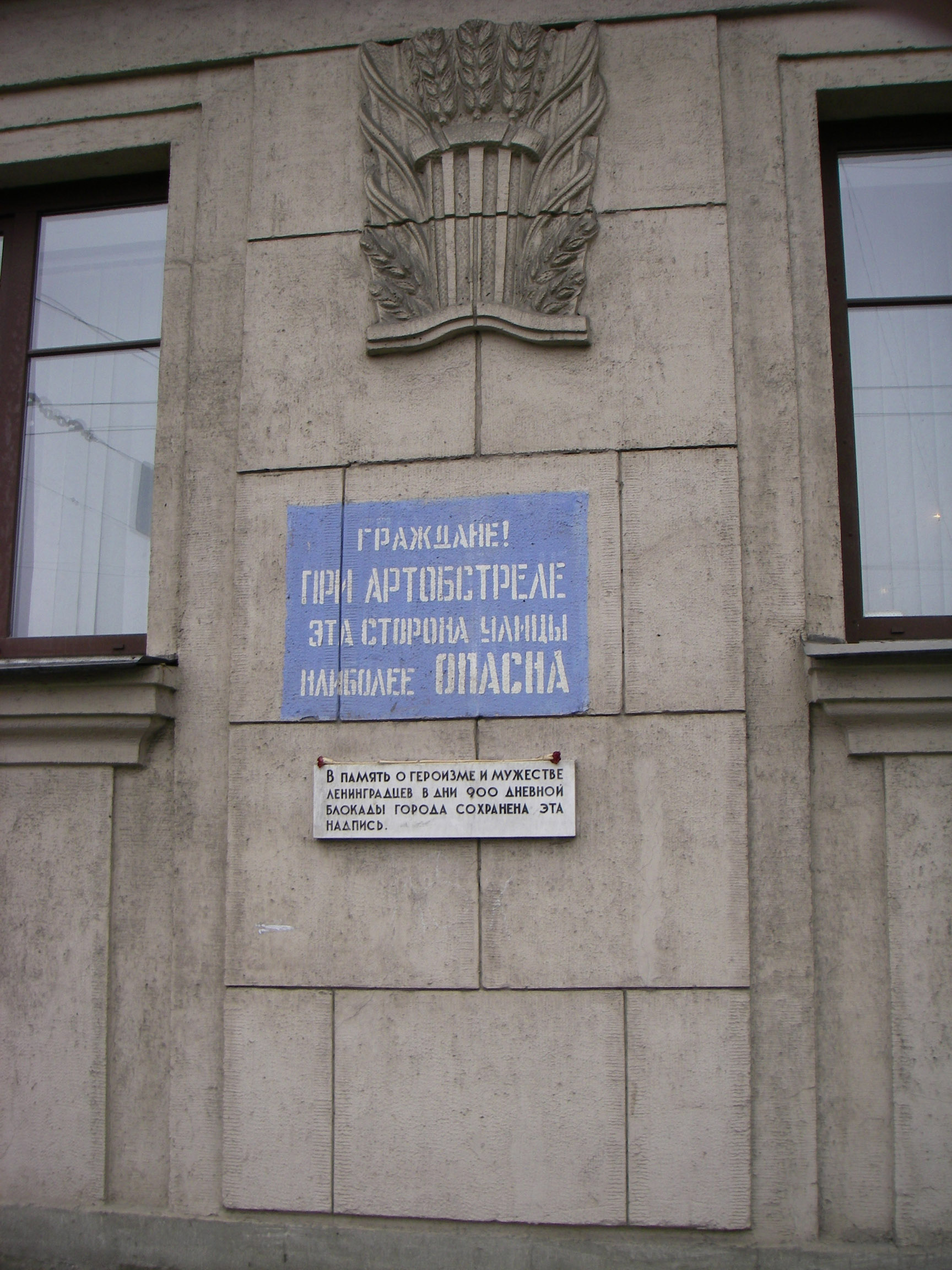 Надпись: "Citizens! This part of the street is most dangerous during shelling"